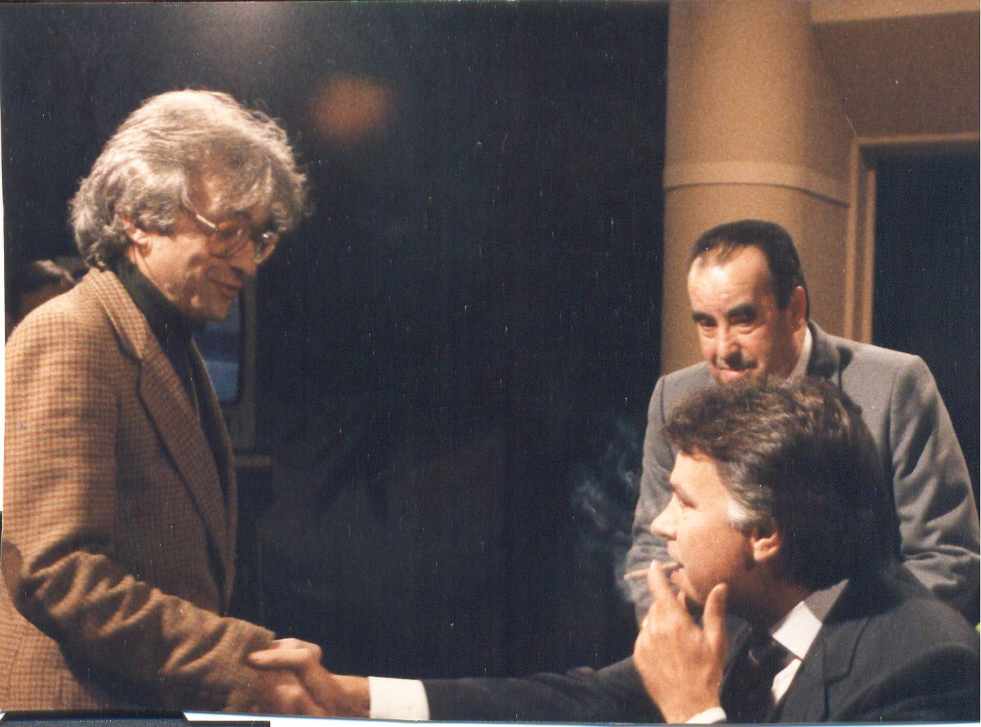 Spanish politician Felipe González shakes hands with journalist Luis Melgar during an interview on Televisión Española